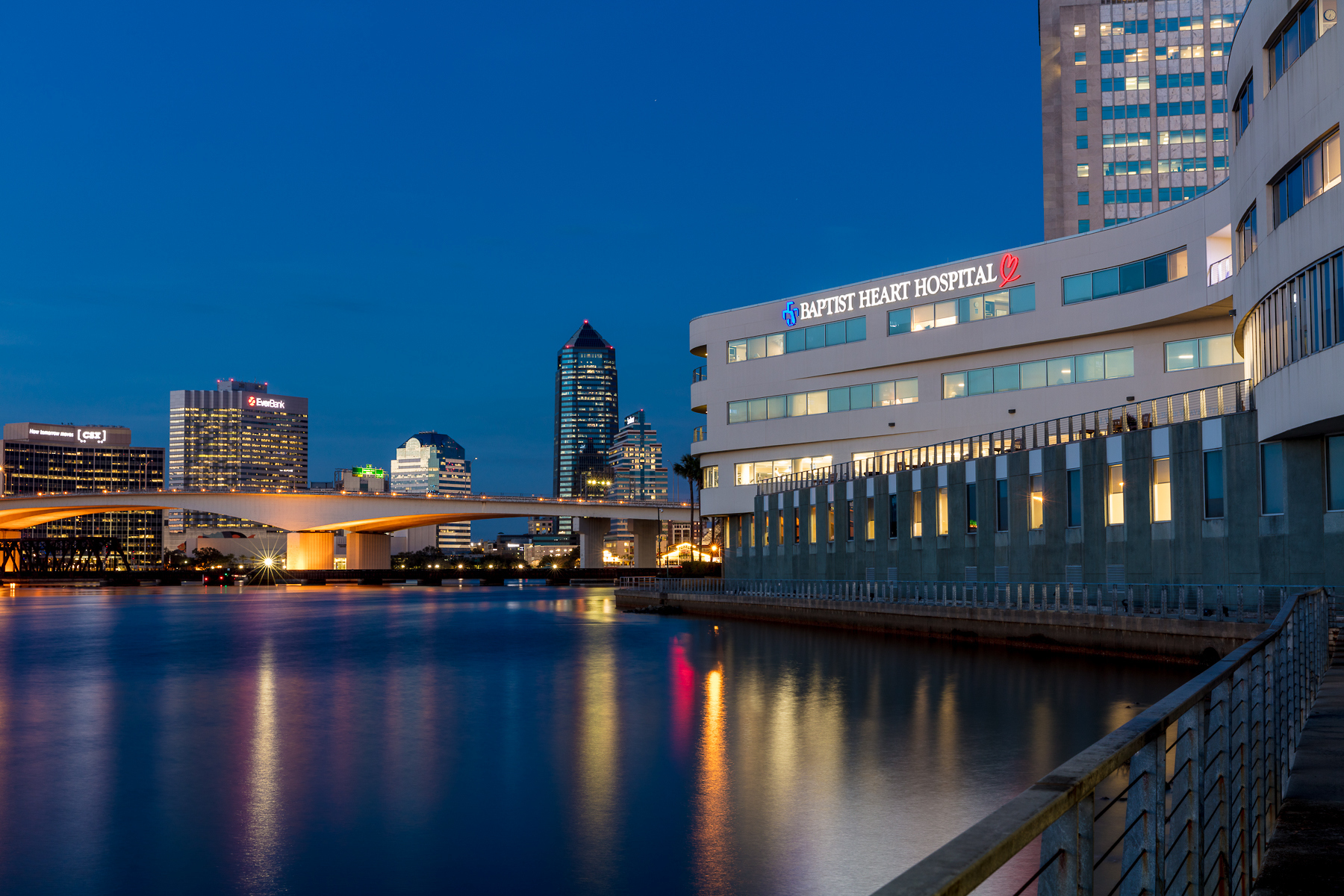 View of Baptist Heart Hospital at night with downtown Jacksonville in background. Year: 2018